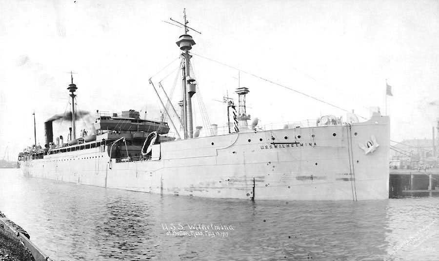 USS Wilhelmina (ID # 2168) At the Boston Navy Yard, Charlestown, Massachusetts, 13 May 1919. Panoramic photograph by Crosby, "Naval Photographer", 11 Portland Street, Boston. Courtesy of the Naval Historical Foundation, Washington, D.C. U.S. Naval Historical Center Photograph.